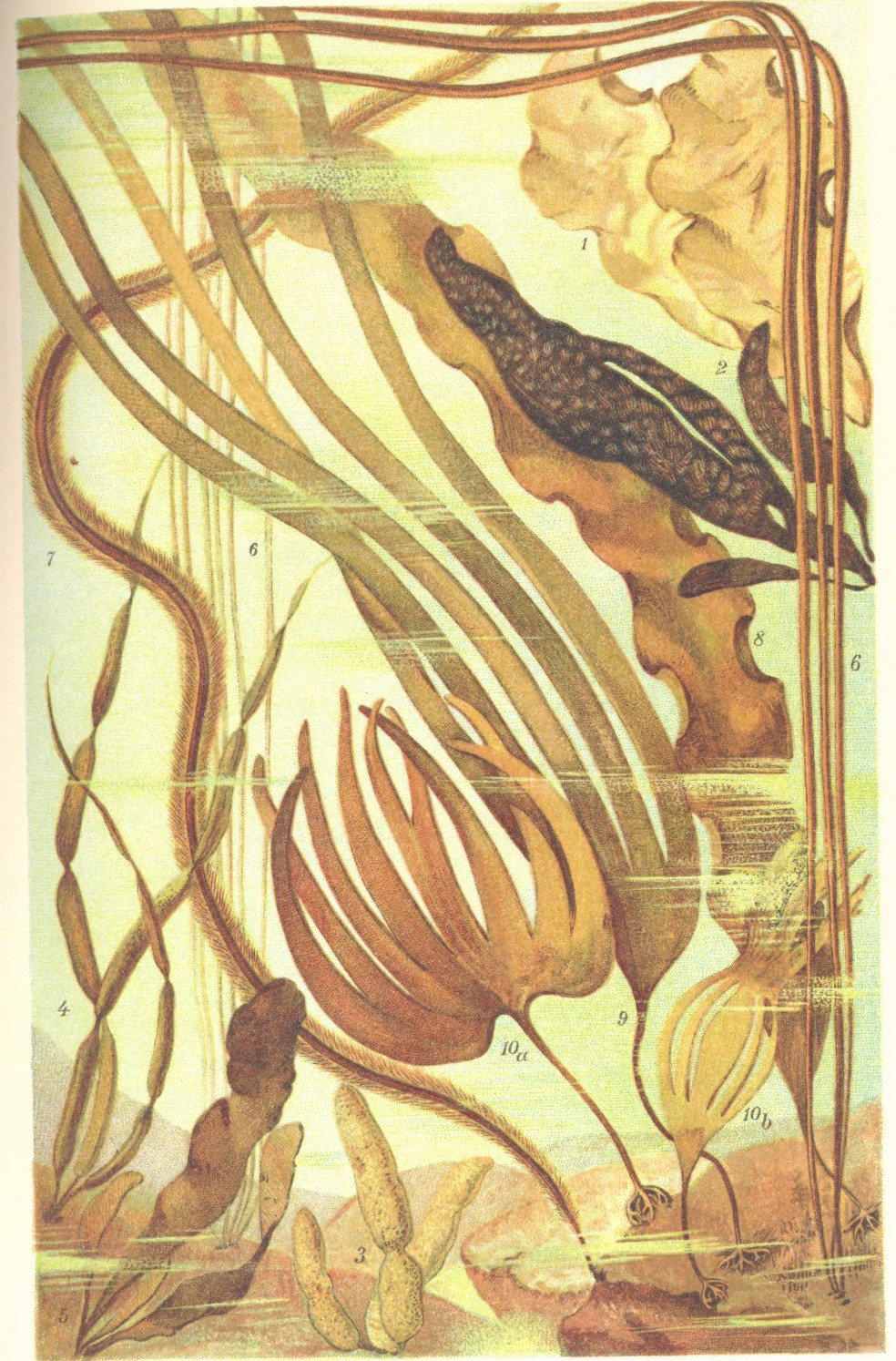 1- Punctaria latifolia, 2- Punctaria plantaginea, 3- Asperococcus bullosus, 4- Scytosiphon tomentarius, 5- Phyllitis fascia, 6- Chorda filum, 7- Chorda tomentosa, 8- Laminaria saccharina, 9- Laminaria digitata, 10- Laminaria hyperborea Subject: Brown algae, Pheophycees, Laminaria Tag: Aquatic Botany